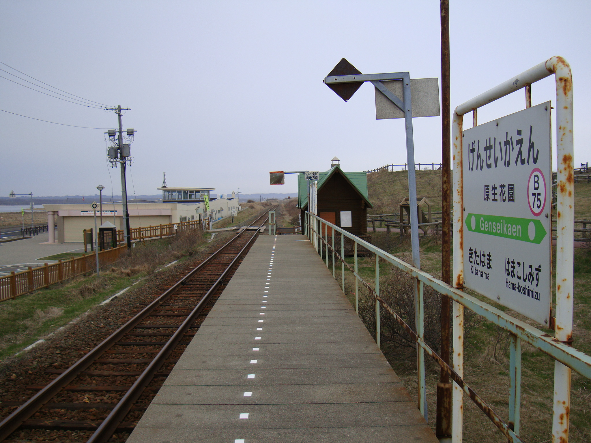 Genseikaen Station